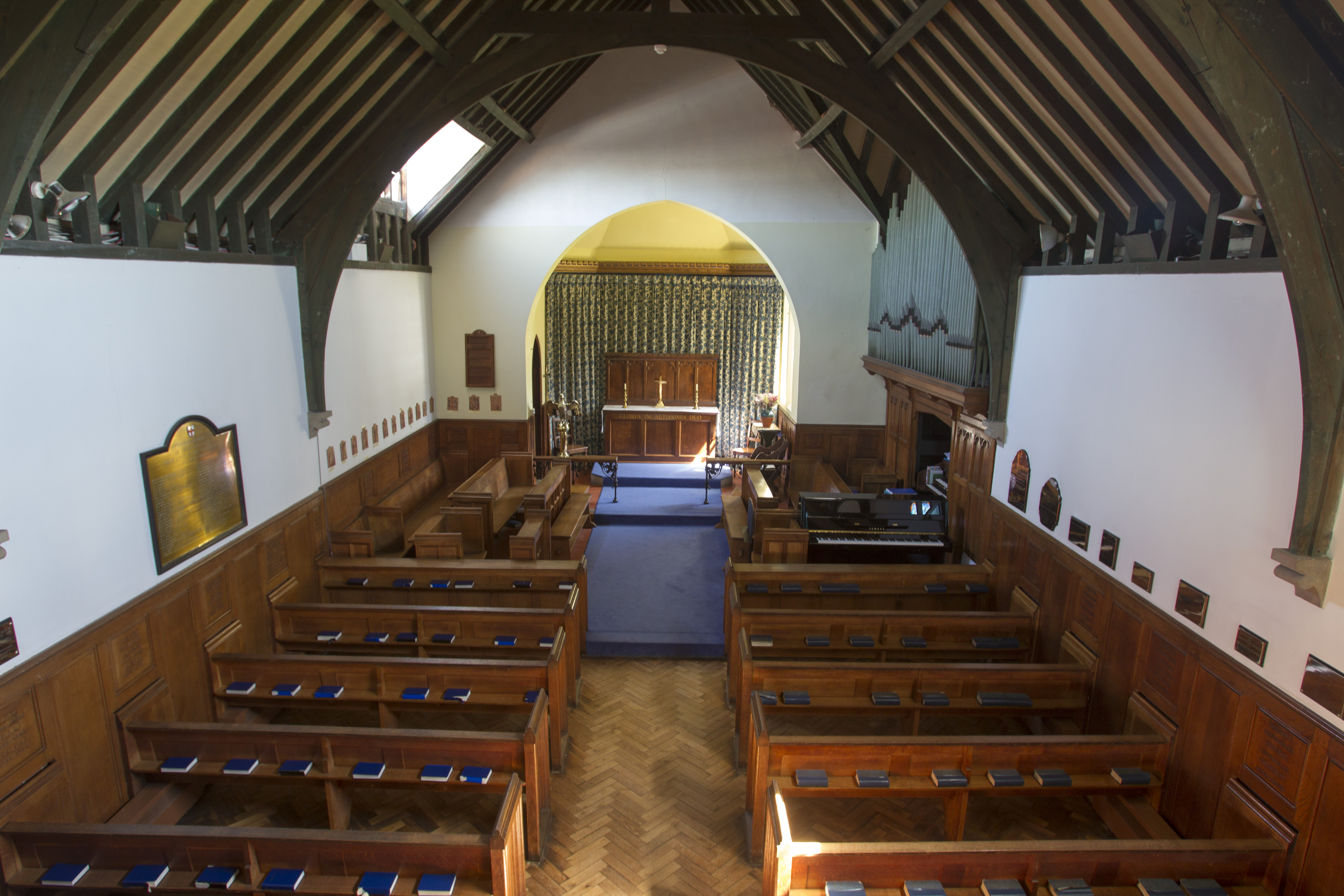 Lambrook Chapel